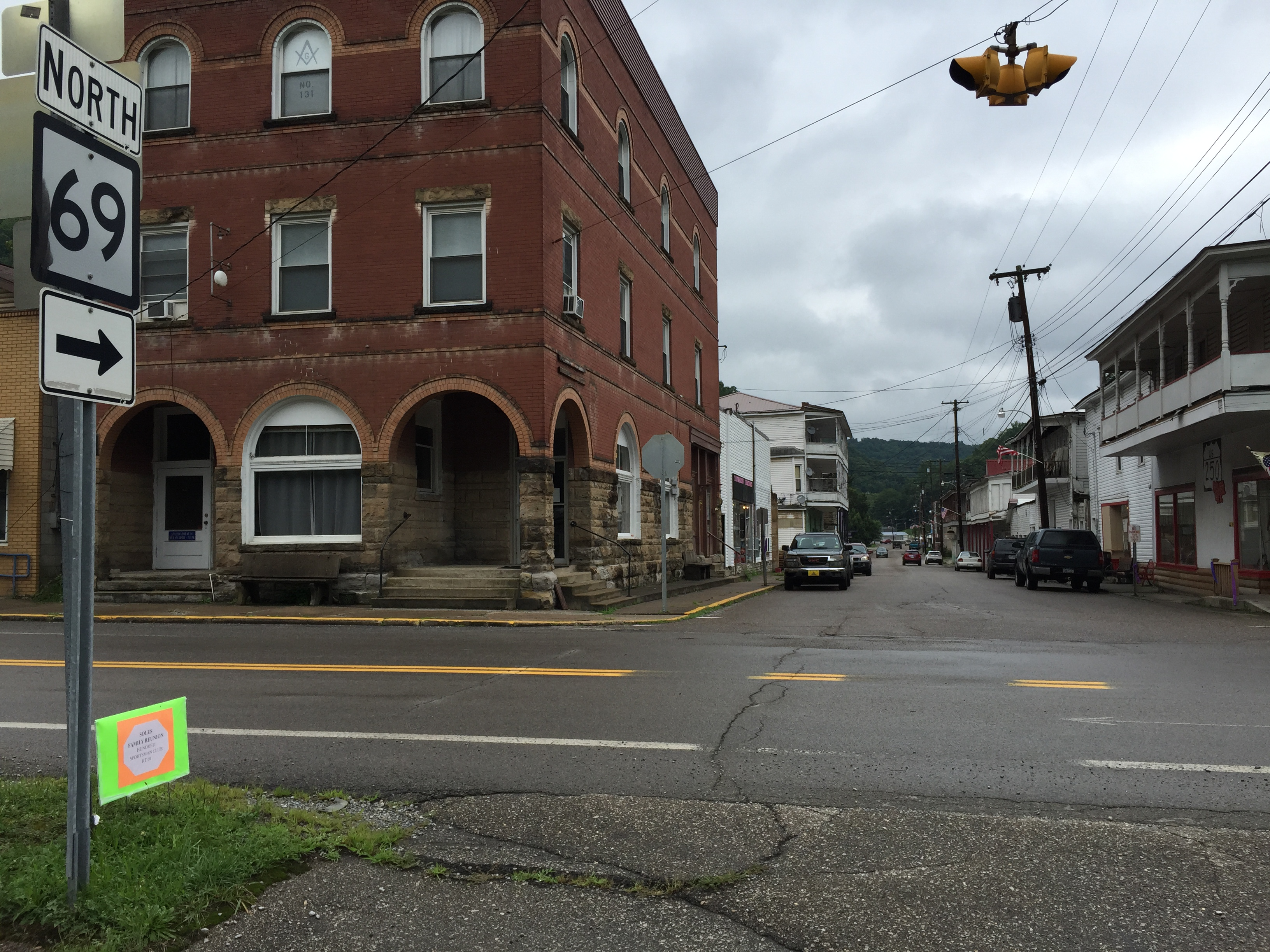 View north along West Virginia State Route 69 (Pennsylvania Avenue) at U.S. Route 250 (Hornet Highway) in Hundred, Wetzel County, West Virginia